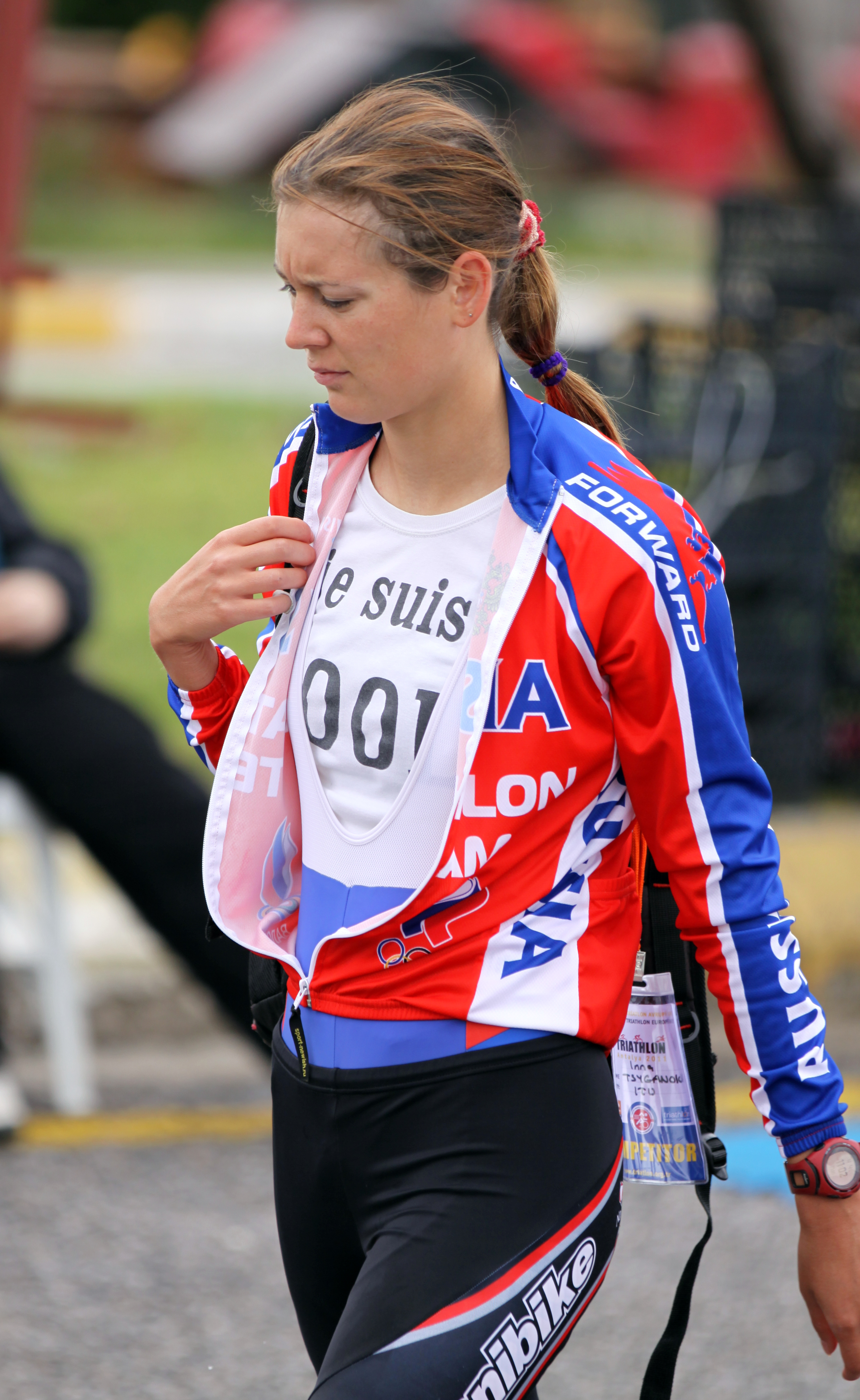 Inna Tsyganok (Інна Циганок, Инна Цыганок) at the European Cup triathlon in Antalya 2011.